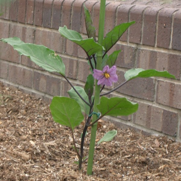 Eggplant's flower